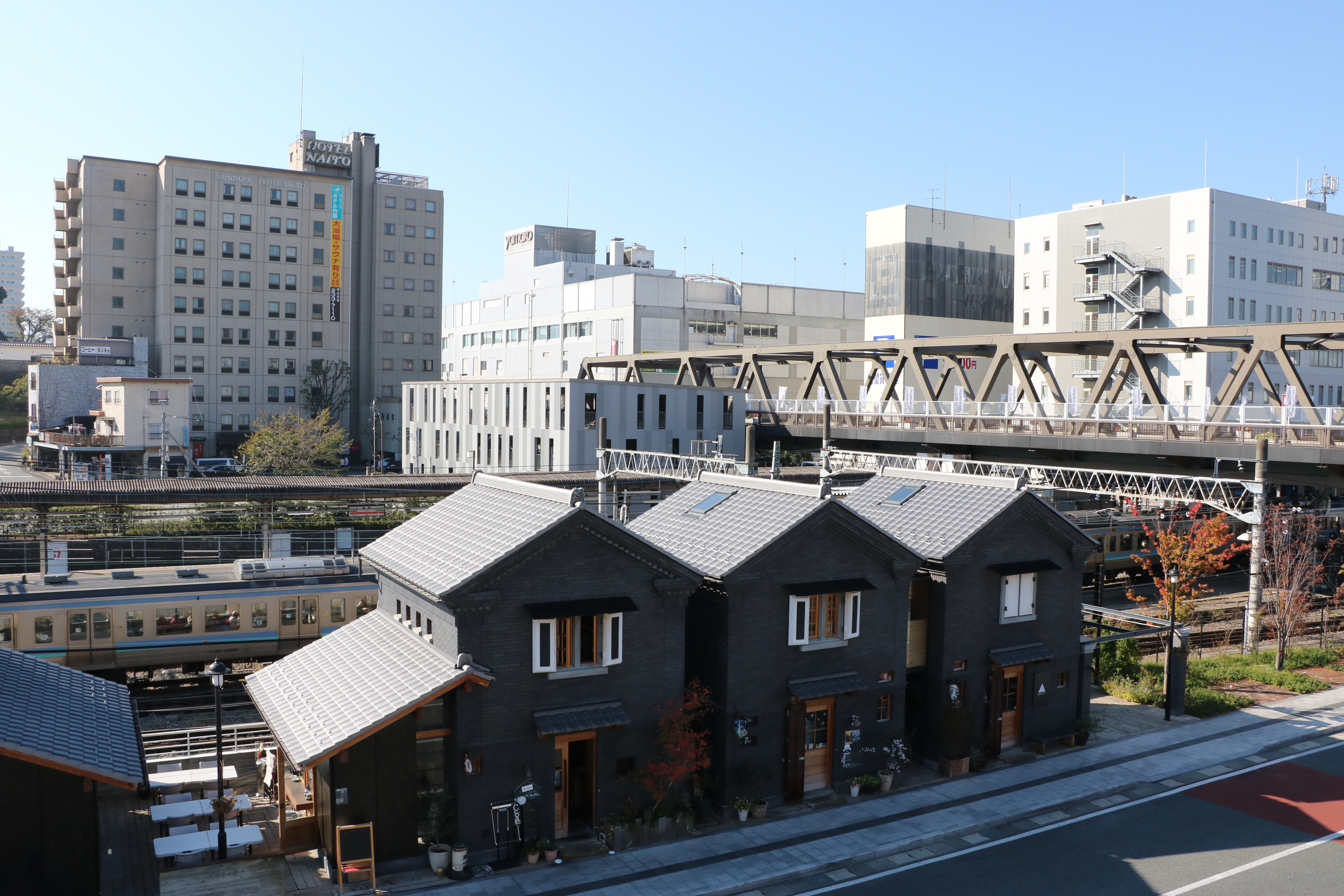 Koshu yume-koji and Kofu Station